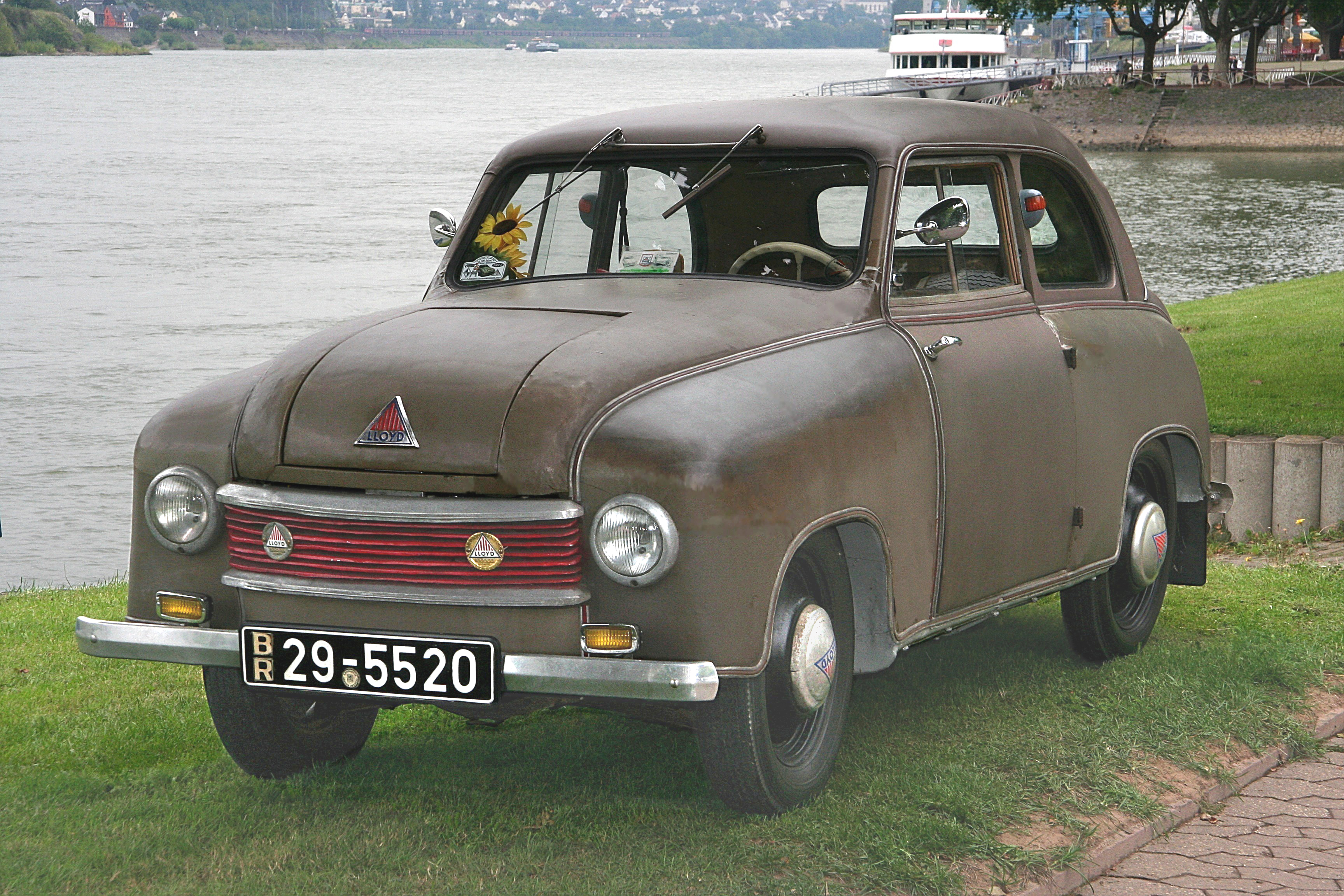 A 1950/51 Lloyd LP 300 series 1 with small bonnet.